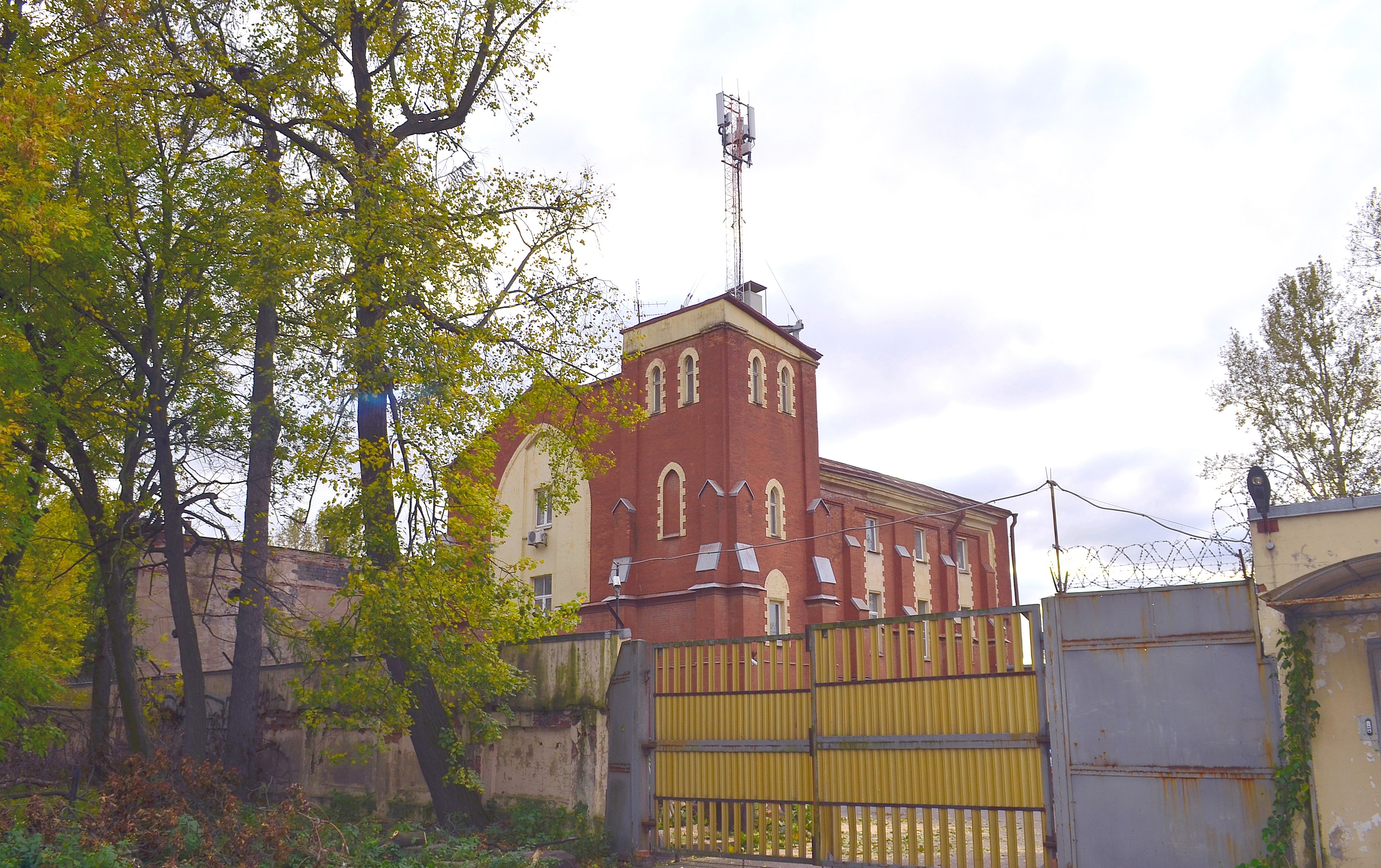 St. Petersburg. Obukhovskoy Oborony Avenue, 129. Alexander ironworks. British-American Church.